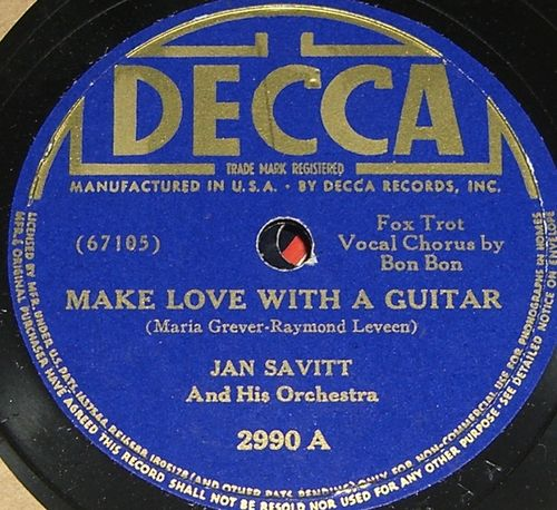 Jan savitt 78 shellack